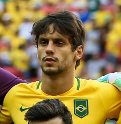 Brasília - Futebol masculino da seleção brasileira, deu o seu pontapé inicial na Olimpíada Rio 2016, em uma partida contra a África do Sul, no Estádio Mané Garrincha (Marcelo Camargo/Agência Brasil)